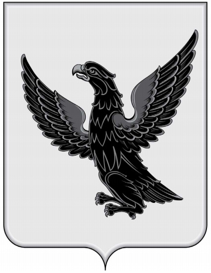 Nerchinsk (Chita oblast), coat of arms (1790)